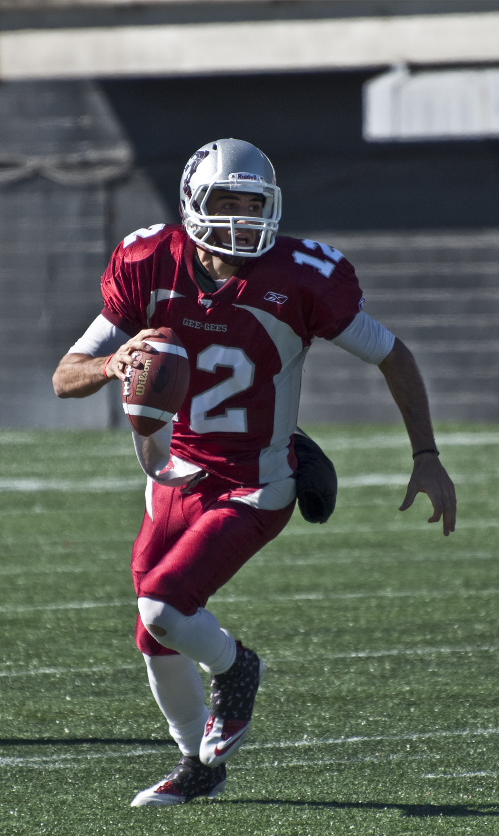 Brad Sinopoli playing quarterback with the University of Ottawa GeeGees in 2010.